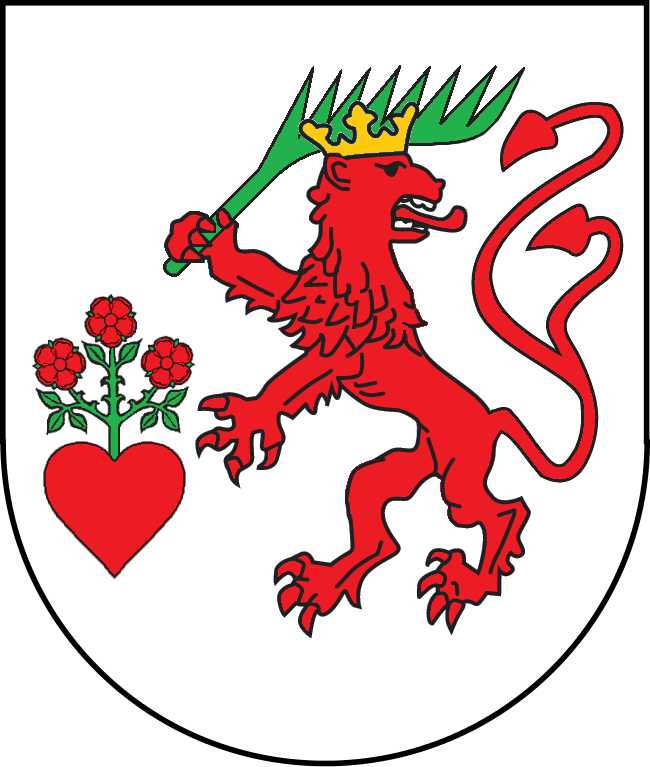 Coat of Arms of gmina Zaniemyśl in Poland